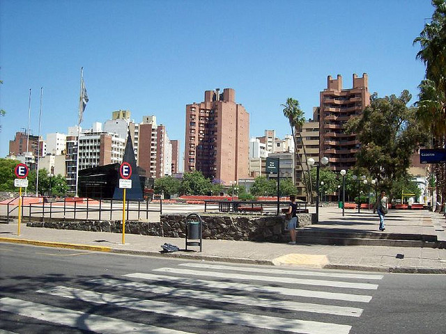 Intendencia (intendant) square. Cordoba, Argentina.